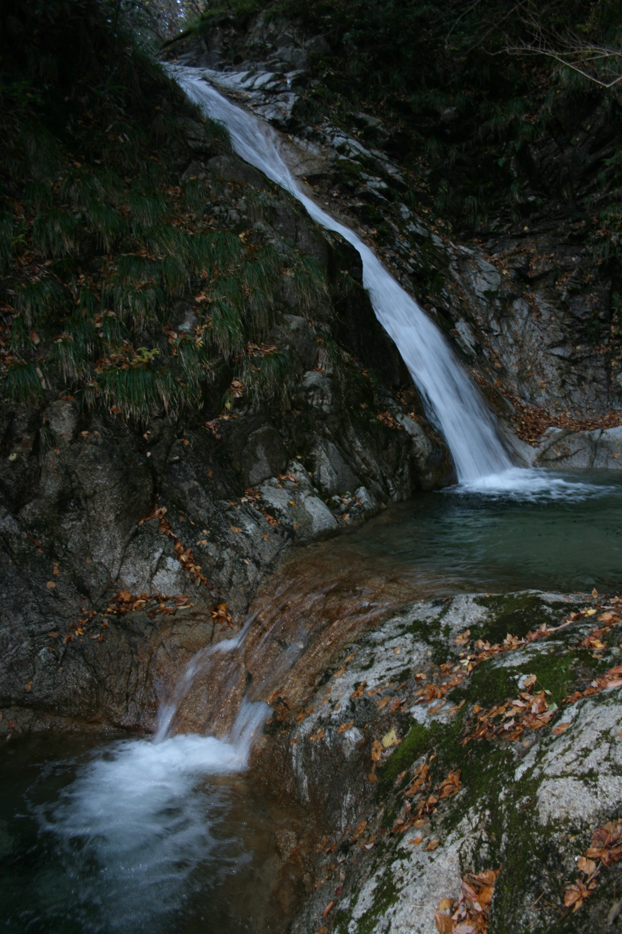 Fudo waterfall in Miyazuma Ravine in Mie prefecture, Japan.